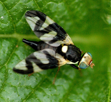 Picture taken in Commanster, Belgian High Ardennes . Species: Urophora cardui